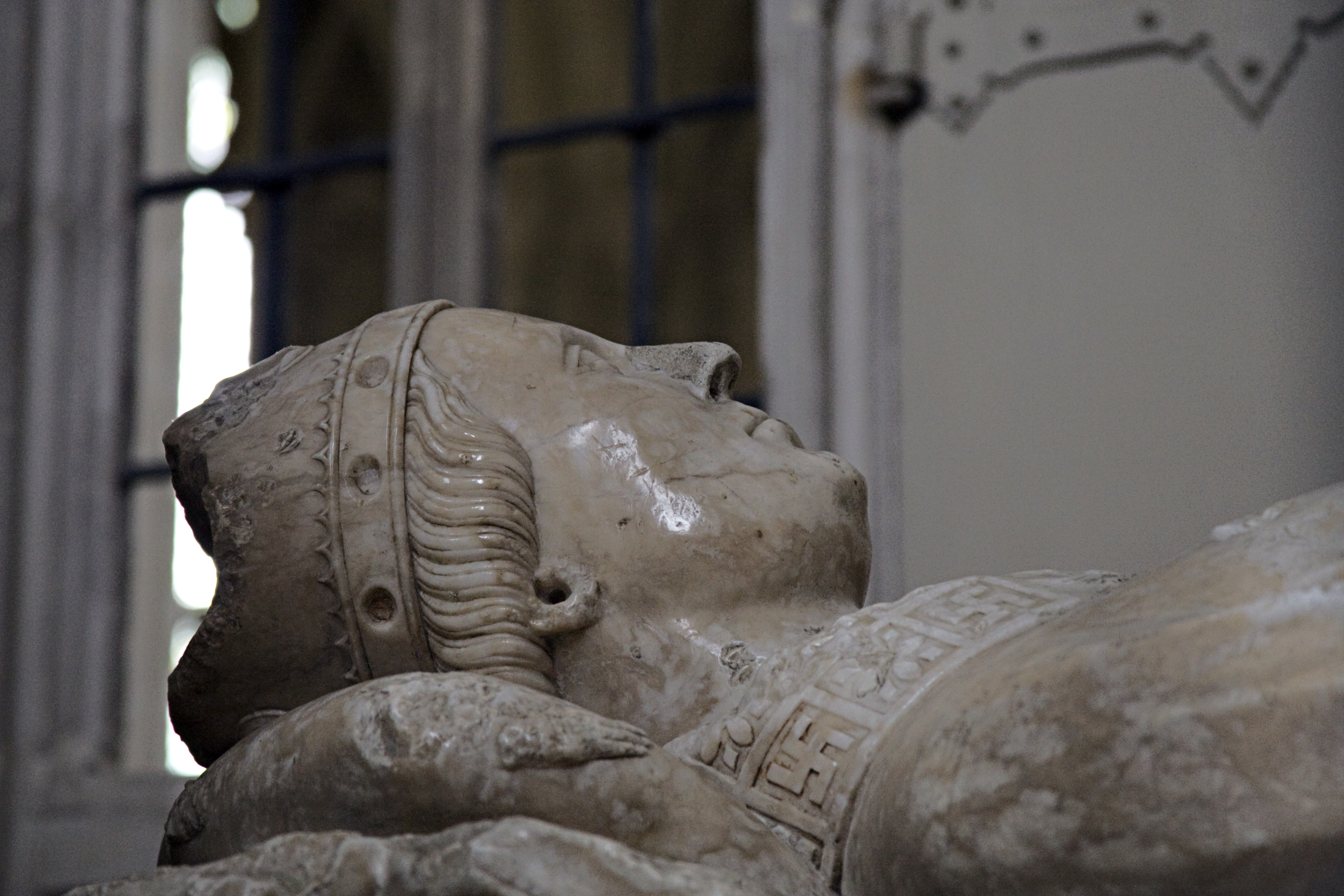 Detail of the tomb of William Edington in Winchester Cathedral.